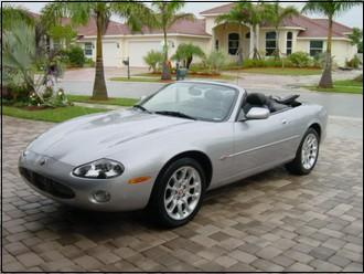 2001 Jaguar XK8 Silverstone